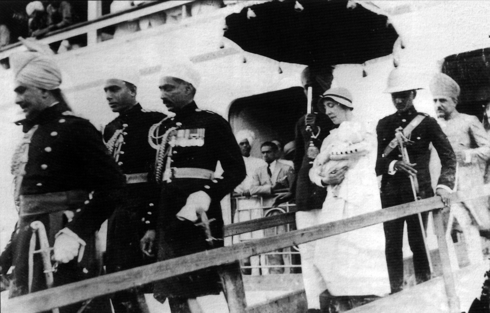 The heir to throne of the Indian state of Hyderabad Asaf Jah VIII (*1933 in Nice) being carried off board by his nanny on arrival in Bombay 1934. He later operated a sheep station in Western Australia.